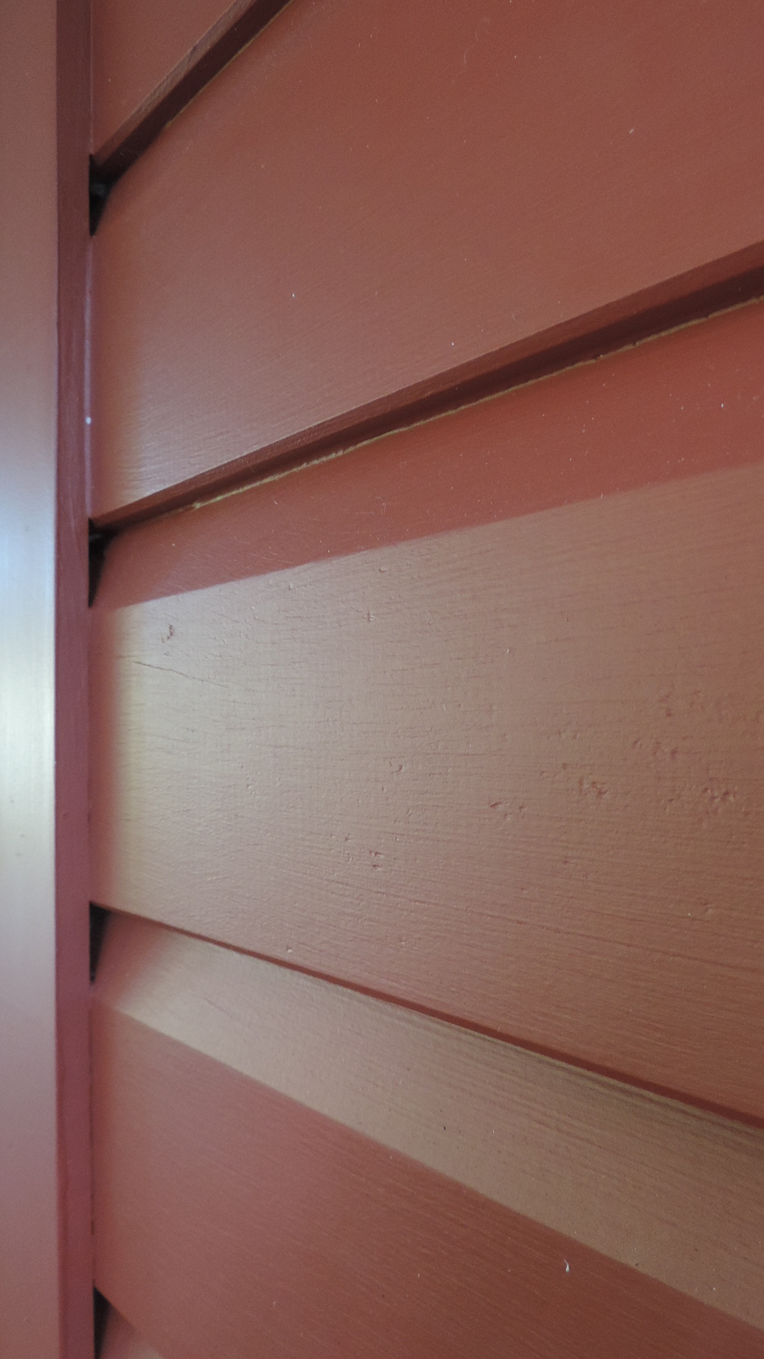 Chamferboard house exterior (closeup), Brisbane, 2015